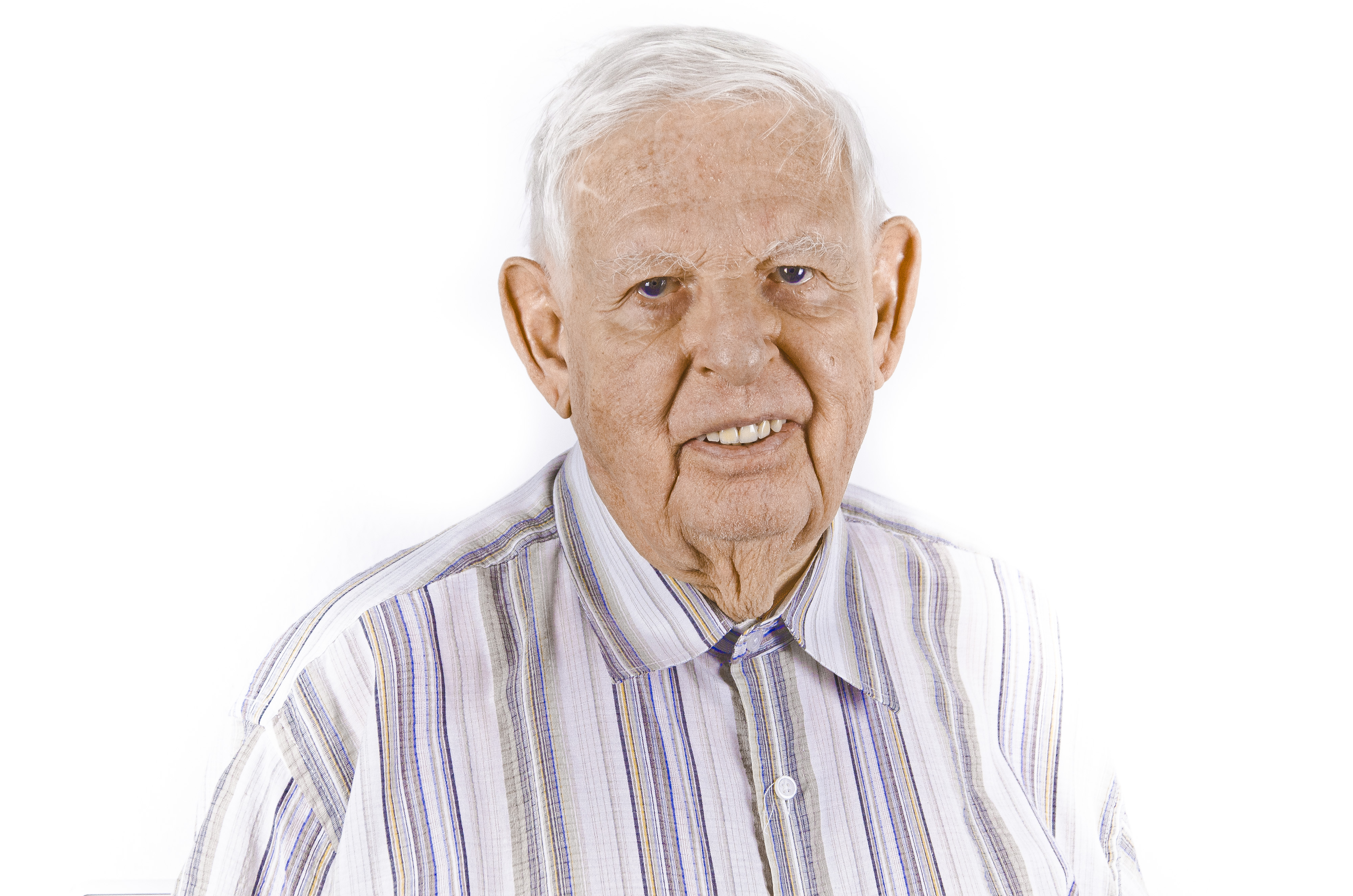 Herbert Knauer (* September 12, 1931 in Berlin-Karlshorst) is a German chemist, engineer and entrepeneur.